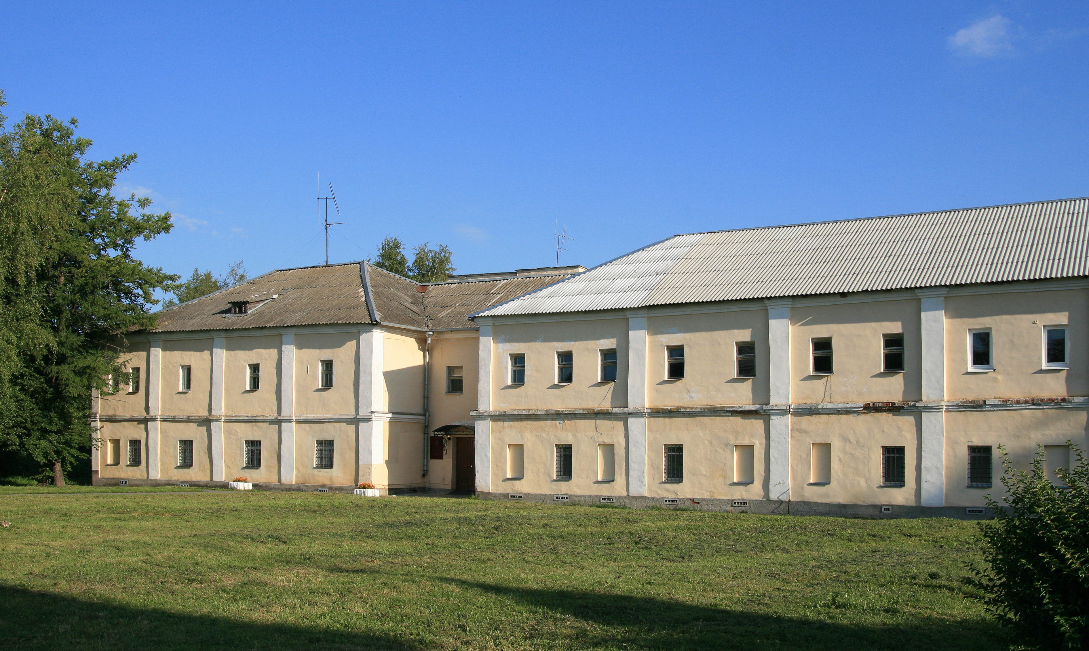 Northern building of Desyatinny monastery, Veliky Novgorod